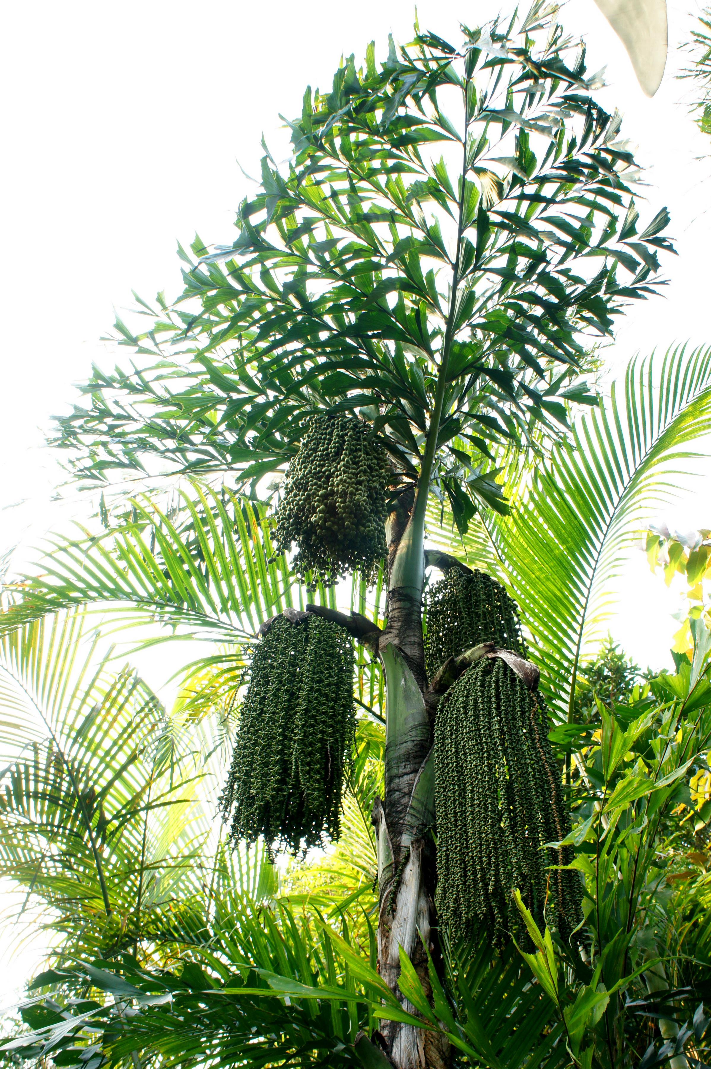 A Caryota ochlandra (Fishtail Palm) at Ma Wan Park, Hong Kong.